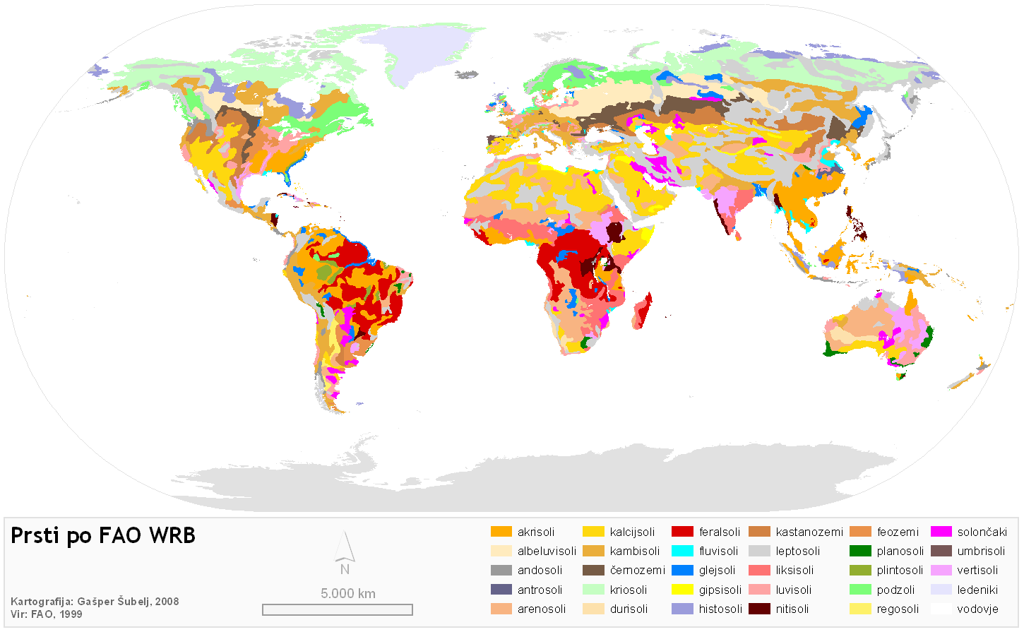 The FAO WRB world soils map